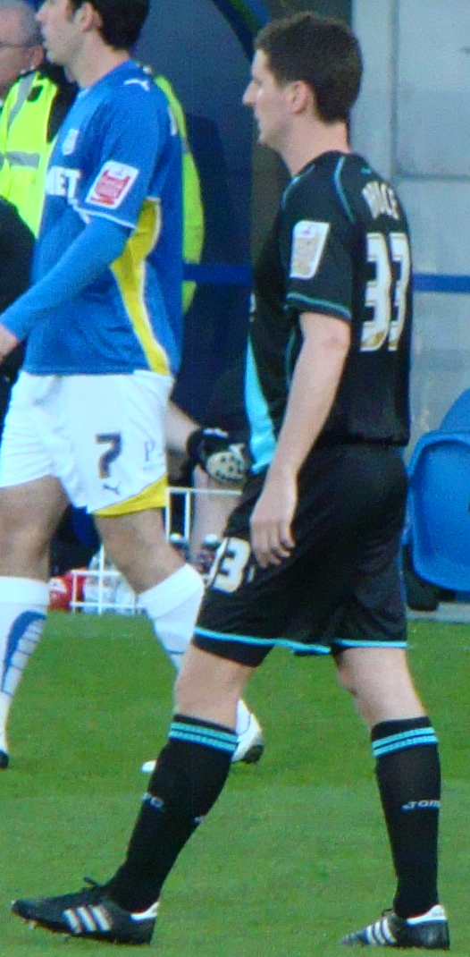 12/05/10 Cardiff City V Leicester City, Championship Playoff 2nd Leg, Cardiff City Stadium, Cardiff, Wales